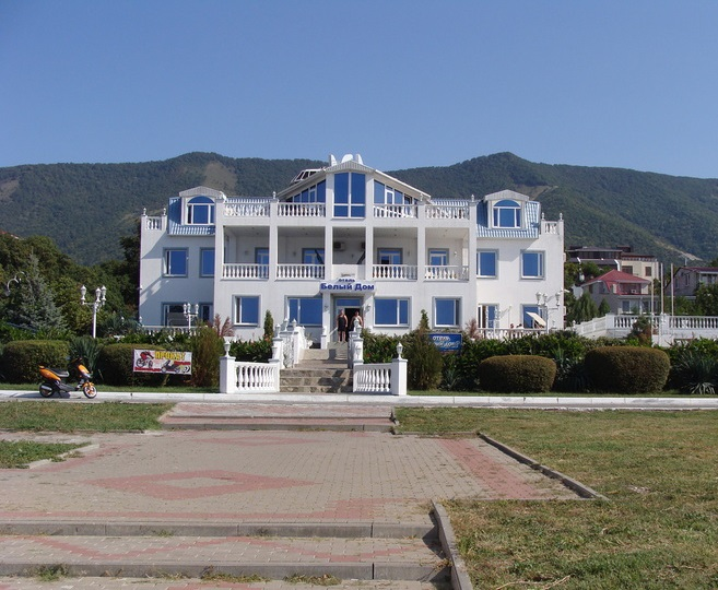 Beliy dom